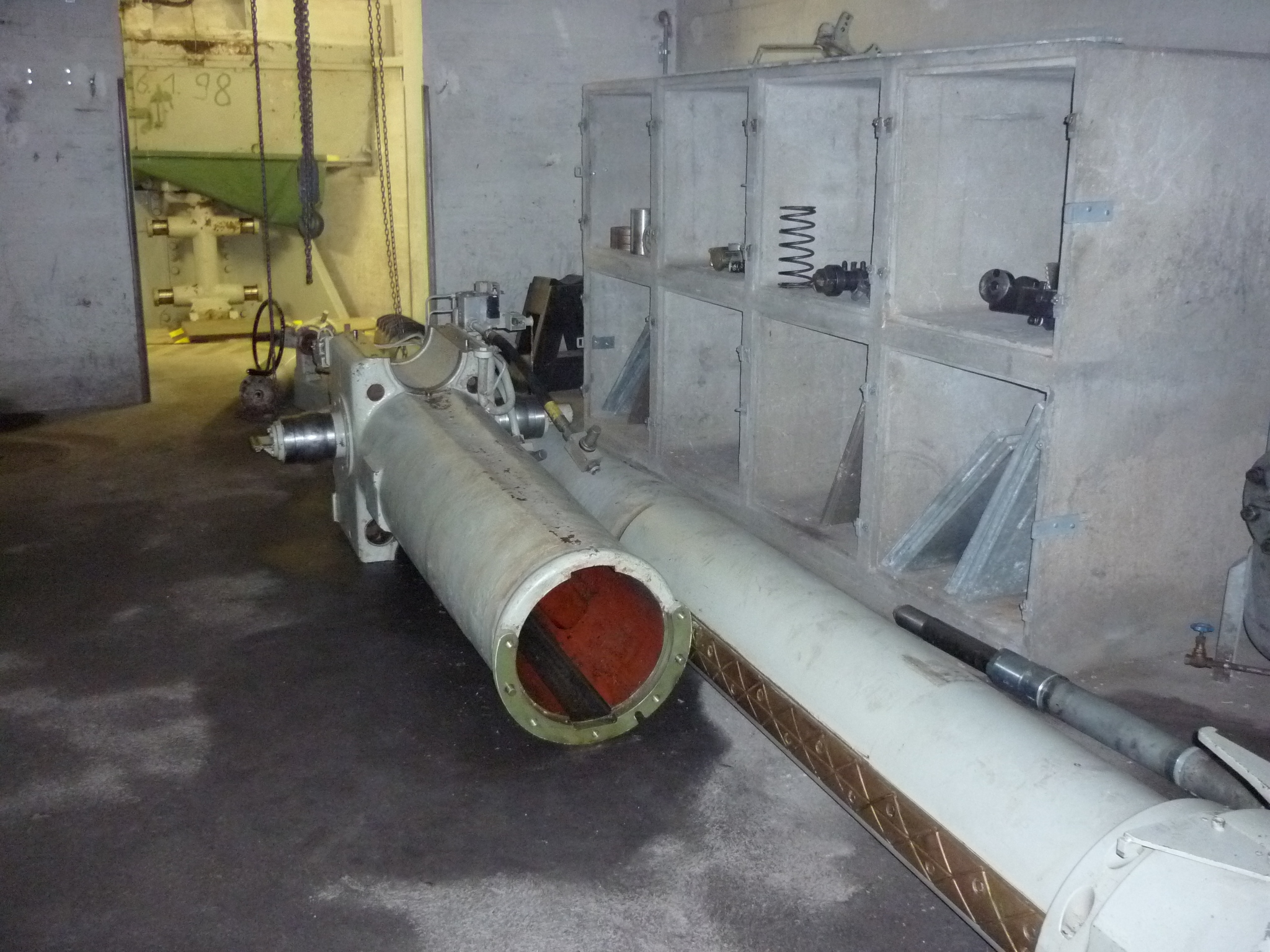 Fort Furkels, Pfäfers SG, Switzerland